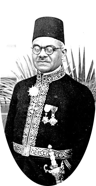 Hosny Pacha